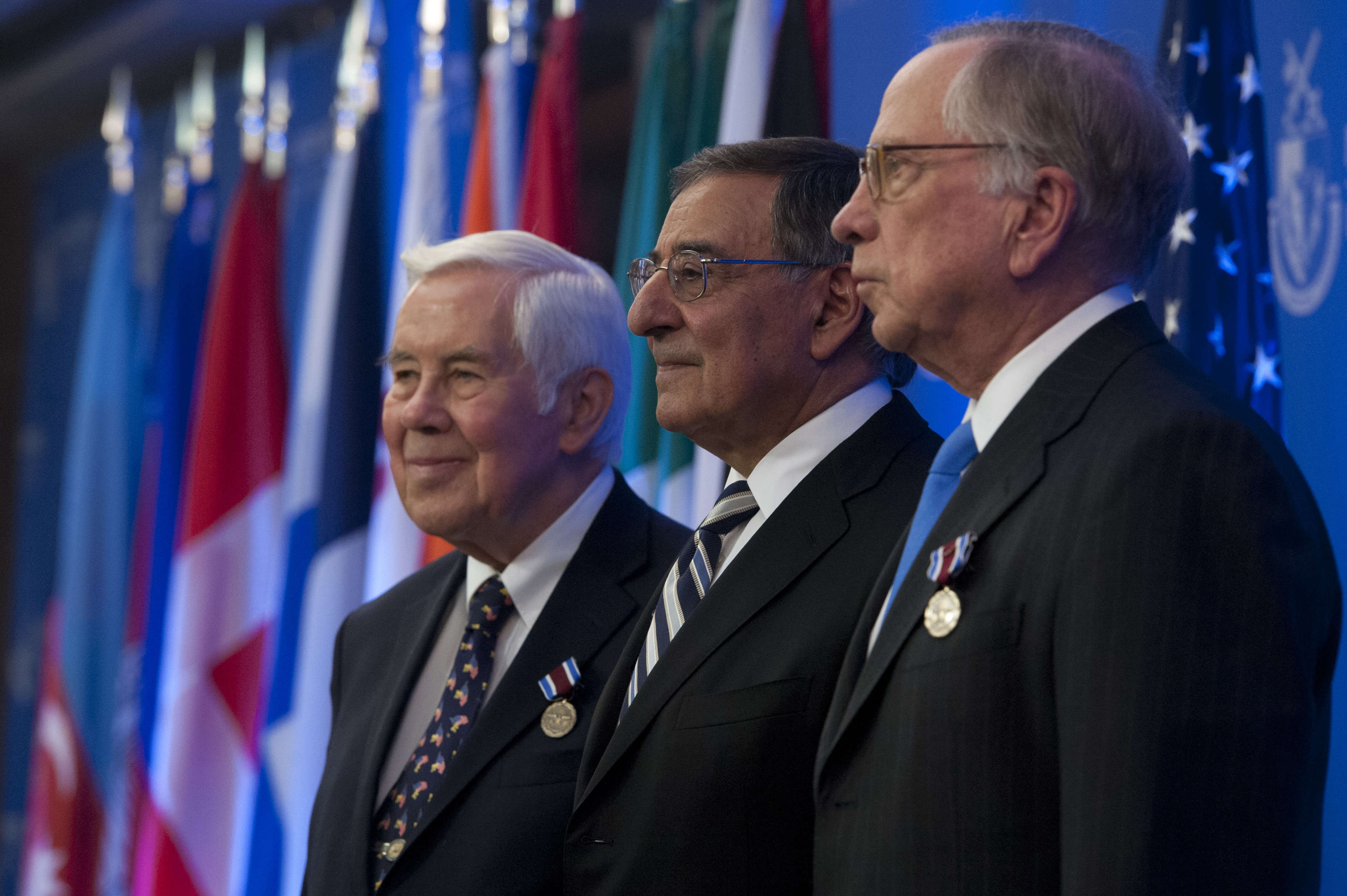 Indiana Sen. Richard Lugar, left, Secretary of Defense Leon E. Panetta, center, and former Georgia Sen. Sam Nunn pose for photographs during a ceremony honoring the senators for their work to help denuclearize countries after the fall of the Soviet Union during a ceremony at the National Defense University in Washington, D.C., on Dec. 3, 2012. Panetta earlier presented Lugar and Nunn the Defense Department’s highest civilian honor, the Distinguished Public Service Award. The Cooperative Threat Reduction Program, established in 1991 as part of the Nunn-Lugar Act, is a critical part of the U.S. approach to reducing the threat of proliferation of weapons of mass destruction and related materials.